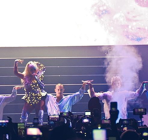 Christina Aguilera, 21.07.2019 - Christina Aguilera, Saint-Petersburg